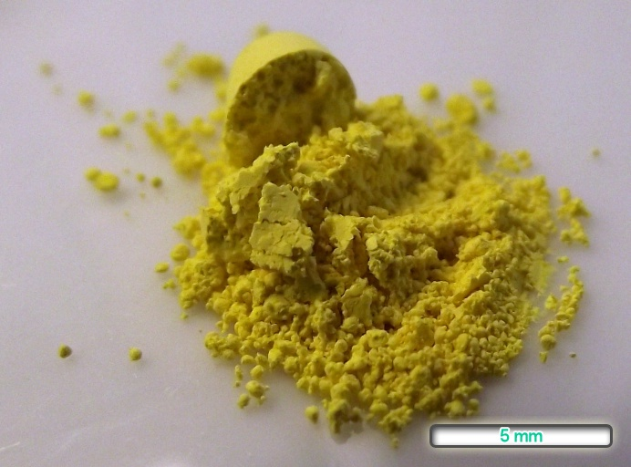 Photo of Tetracycline hydrochloride, pure